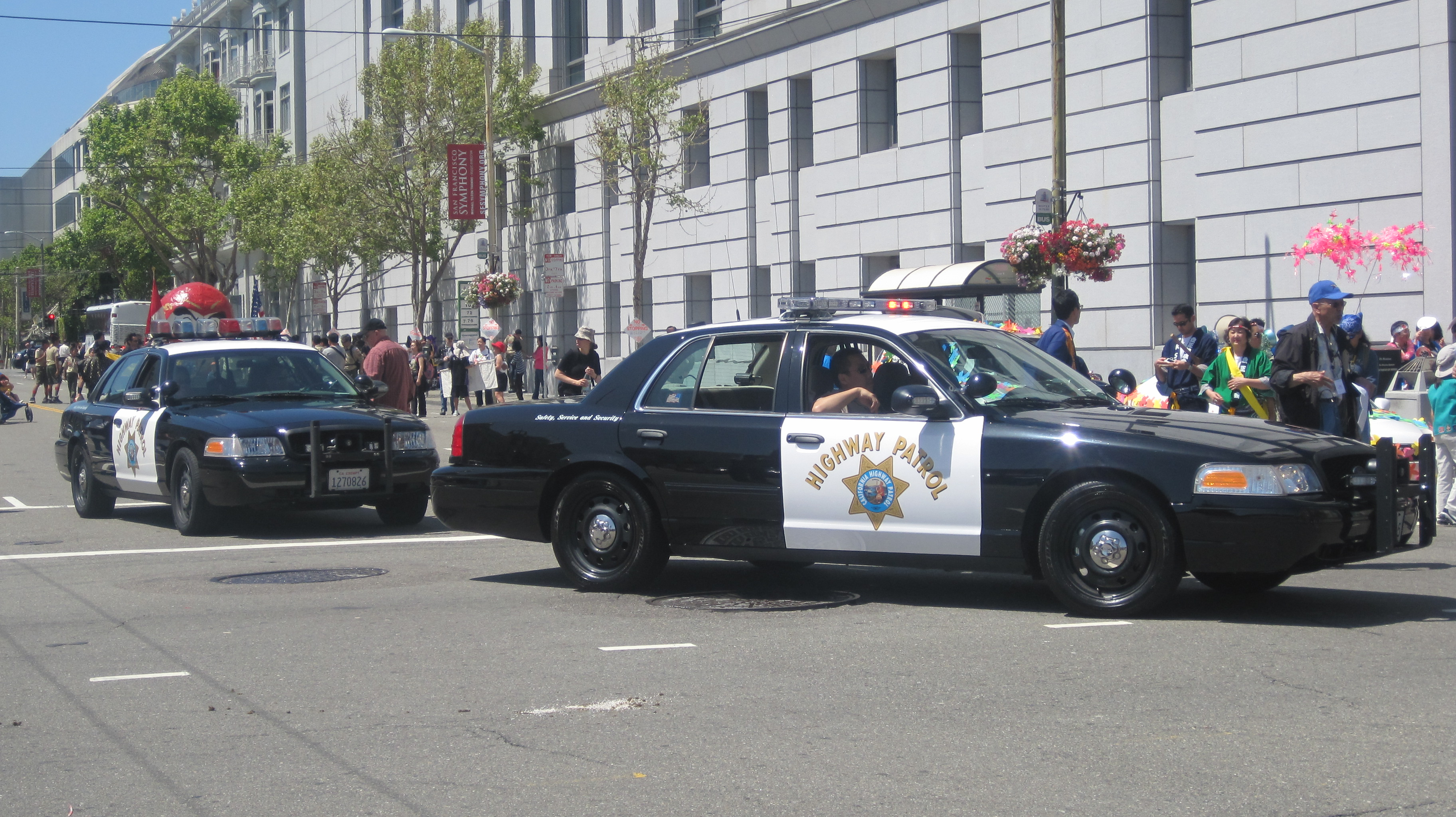 The Grand Parade of the 2010 Northern California Cherry Blossom Festival in San Francisco, California.